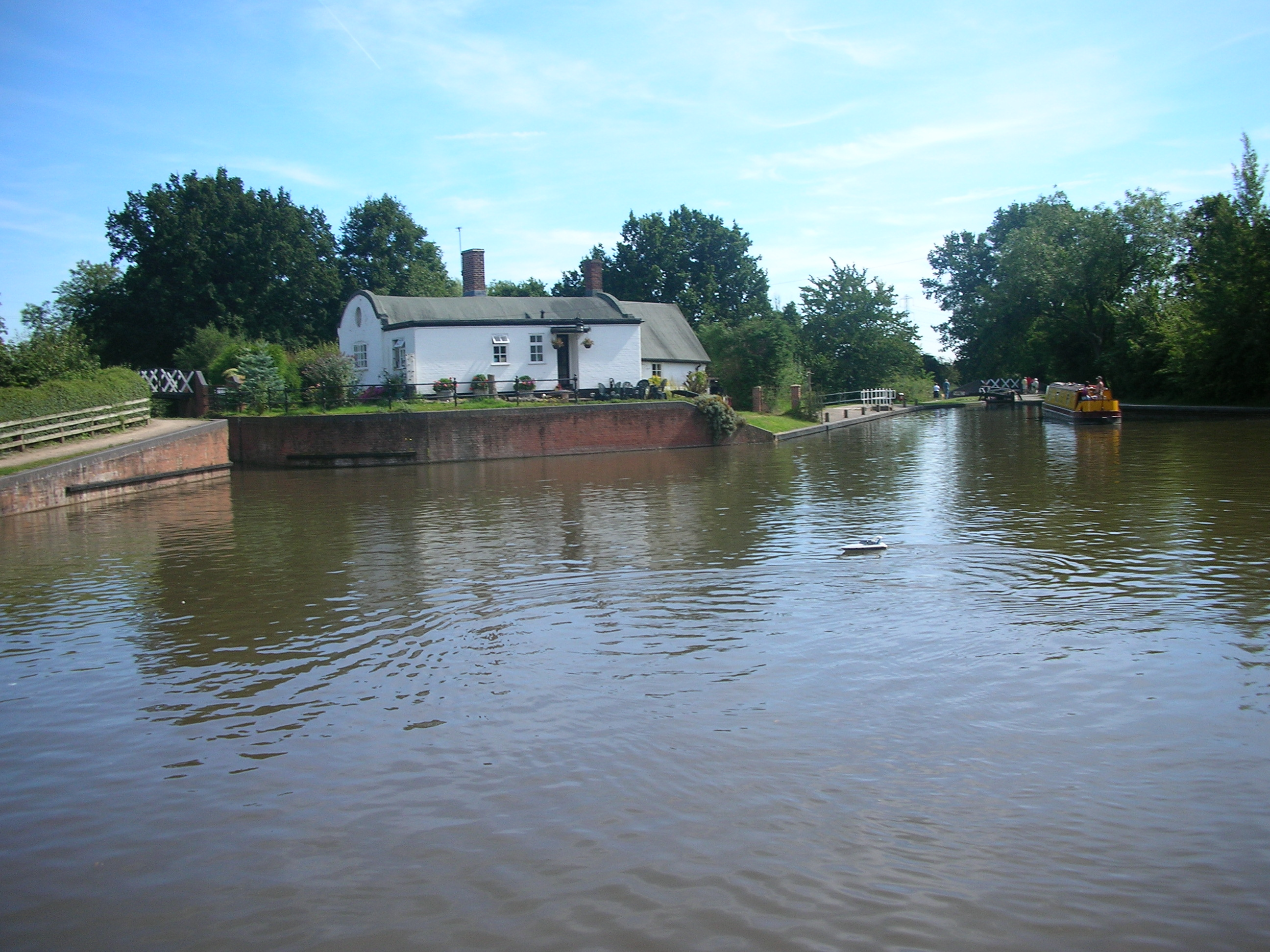 A typical round-roofed cottage on the southern Stratford-upon-Avon Canal at Kingswood Junction in Warwickshire, England. Lock 22 visible to the right. Photographed by me 10 August 2007. Oosoom